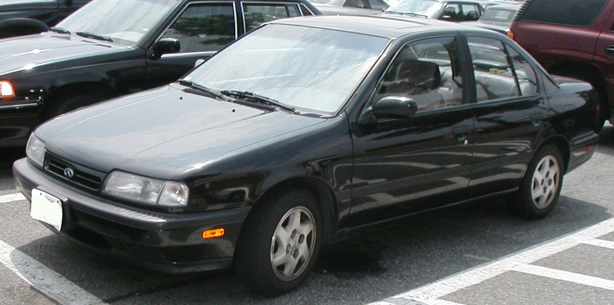 1991-1996 Infiniti G20 photographed in USA.